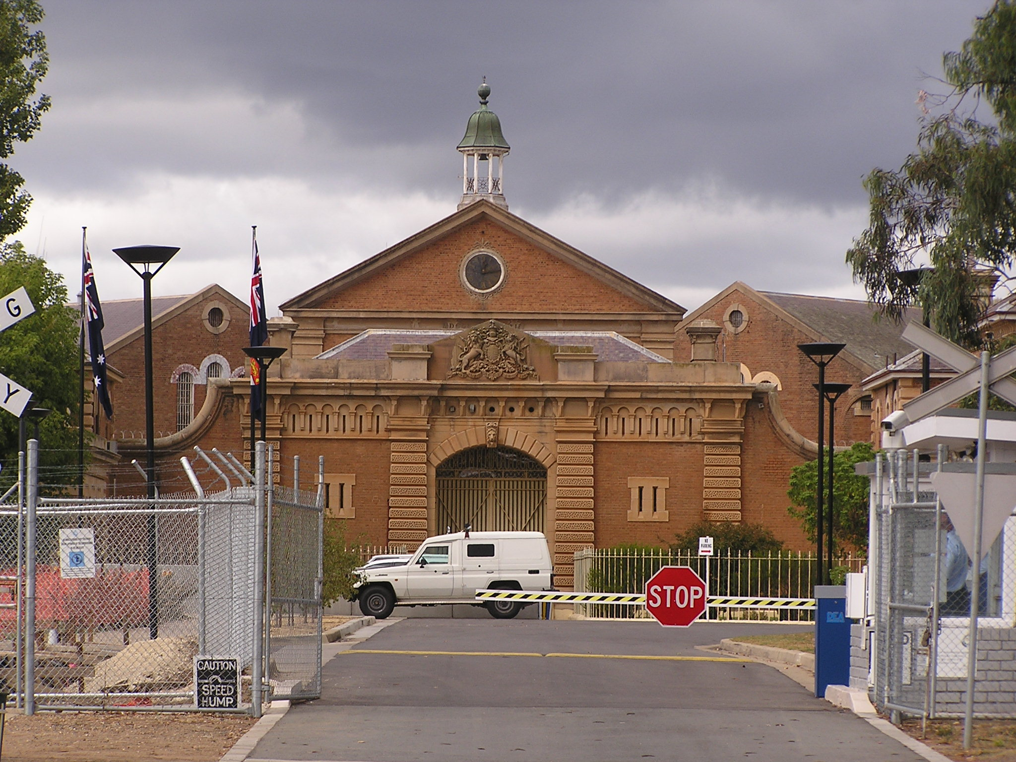 Goulburn, New South Wales, Australia Gaol - main buildings from 1884 designed by the Colonial Architect James Barnet. Picture taken by AYArktos